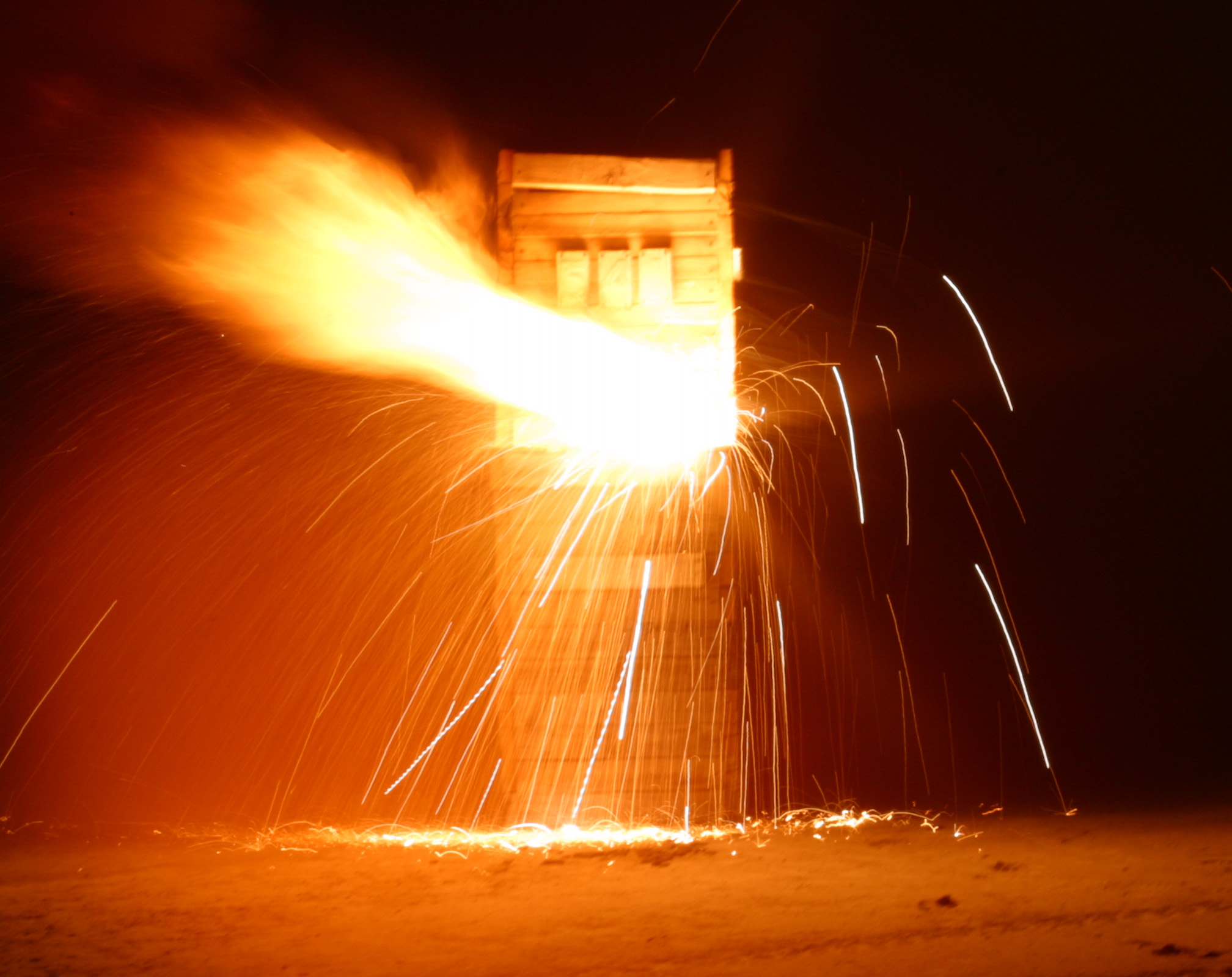 A large quantity of thermite (prepared by mixing 200 g Fe2O3 powder with 60 g of aluminum powder) was placed on a 6 foot-tall wooden slot machine and ignited with a fuse made of magnesium ribbon. Wendover desert, Utah. 10/16/2005, ~ 1am. Taken by O. Robinson. Canon EOS D60. 1/6 sec @ f 32.0, 65mm, ISO 200.